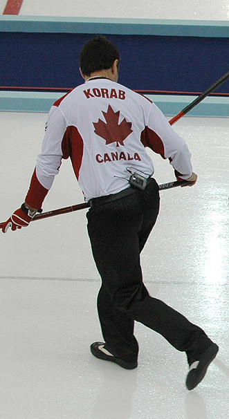 The Canadian team during the 2006 Winter Olympics in Torino.